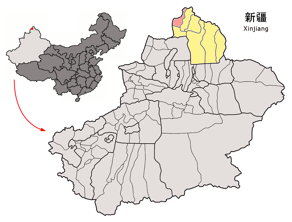 Location of Habahe County (pink) and Altay Prefecture (yellow) within Xinjiang autonomous region of China Map drawn in september 2007 using various sources, mainly : Xinjiang Uygur autonomous region administrative regions GIS data: 1:1M, County level, 1990 Xinjiang Counties map from